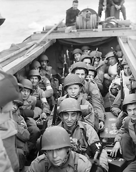 Operation Torch: American troops on board a landing craft going in to land at Oran. November 1942